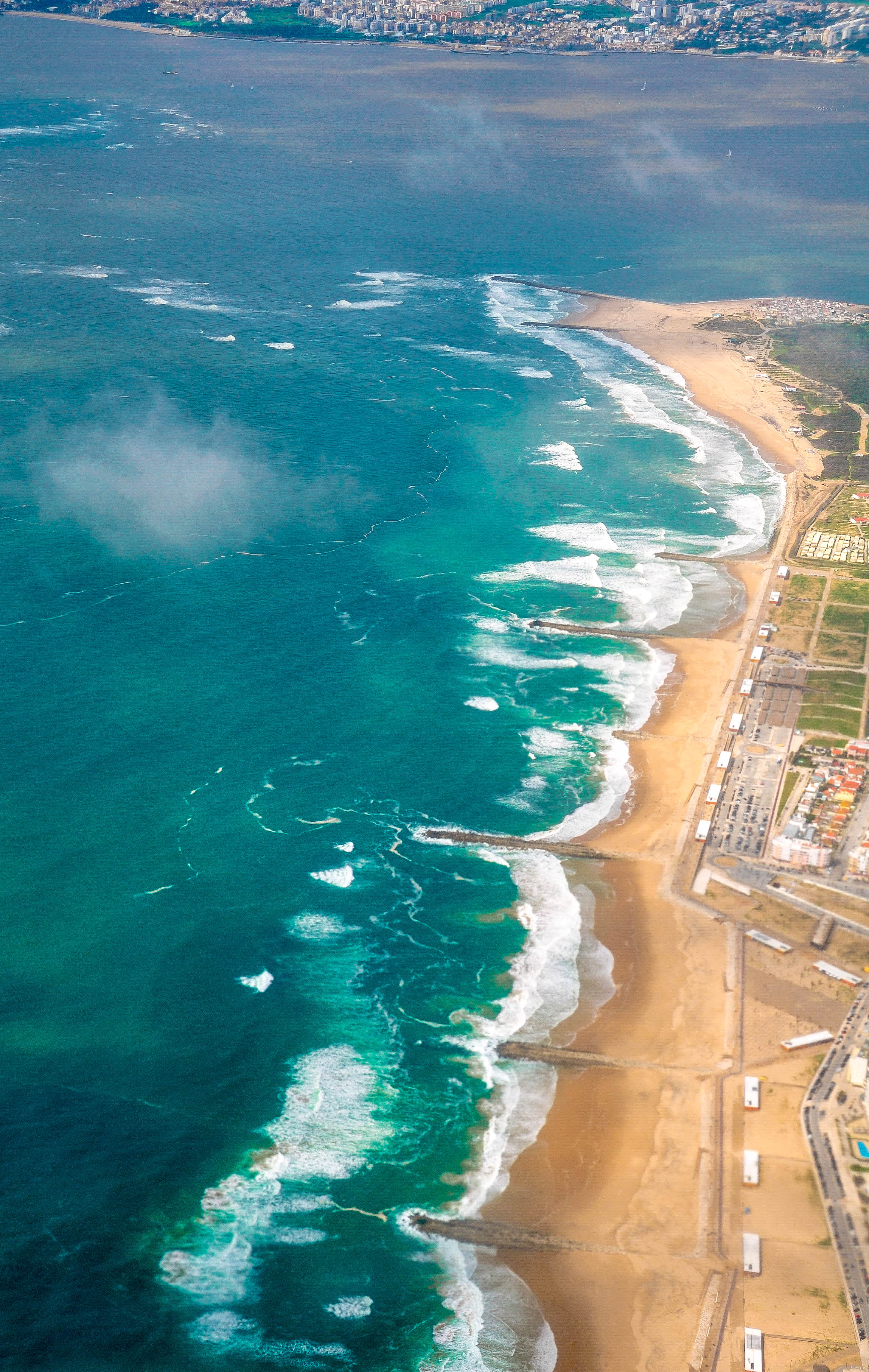 Portugal, Approach into Lisbon